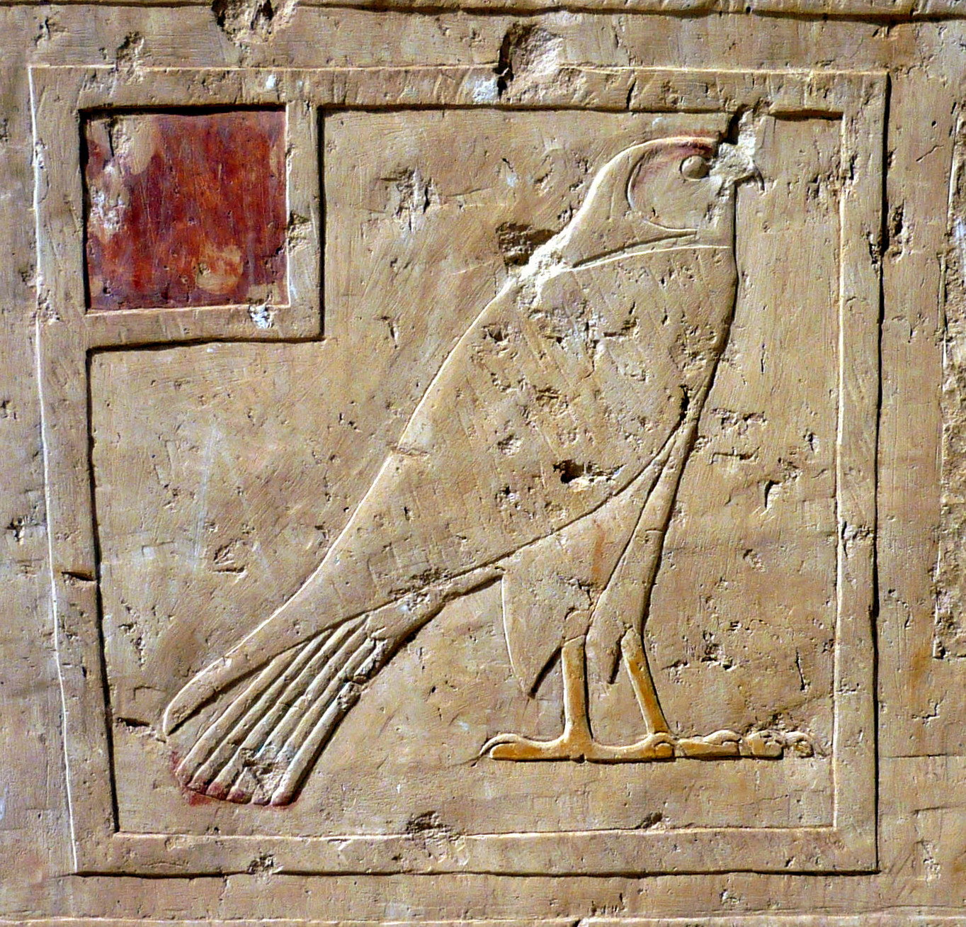 Relief, Hatshepsut temple, Deir el-Bahari, Theban Necropolis, Egypt